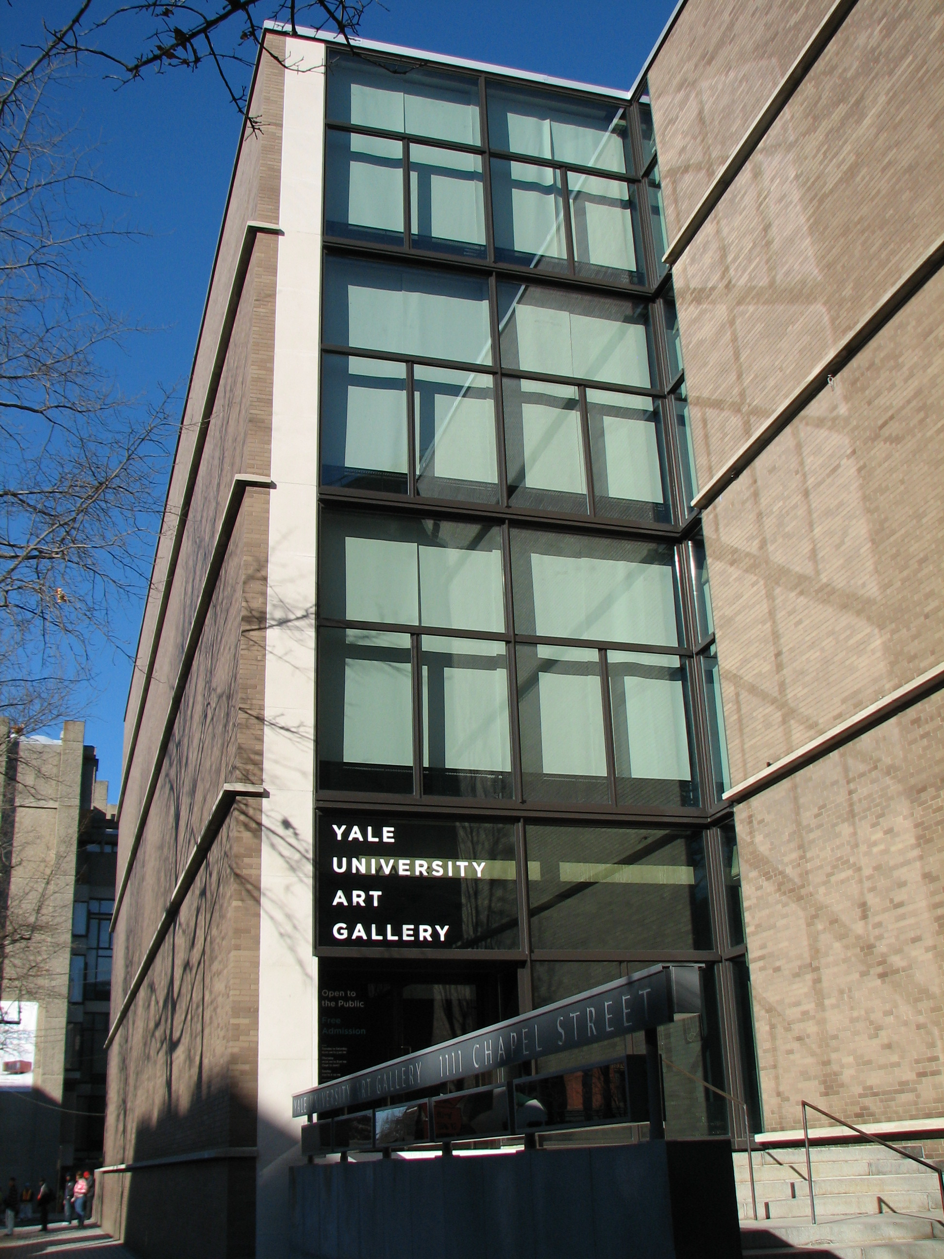 The entrance to the Yale University Art Gallery, designed by Louis Kahn.